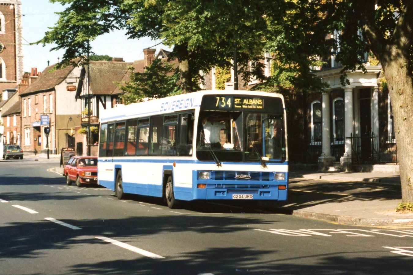 Sovereign 204 (G204 URO), a Leyland Lynx new to the company shortly after they were created from London Country North East, at St Albans in June 1995.